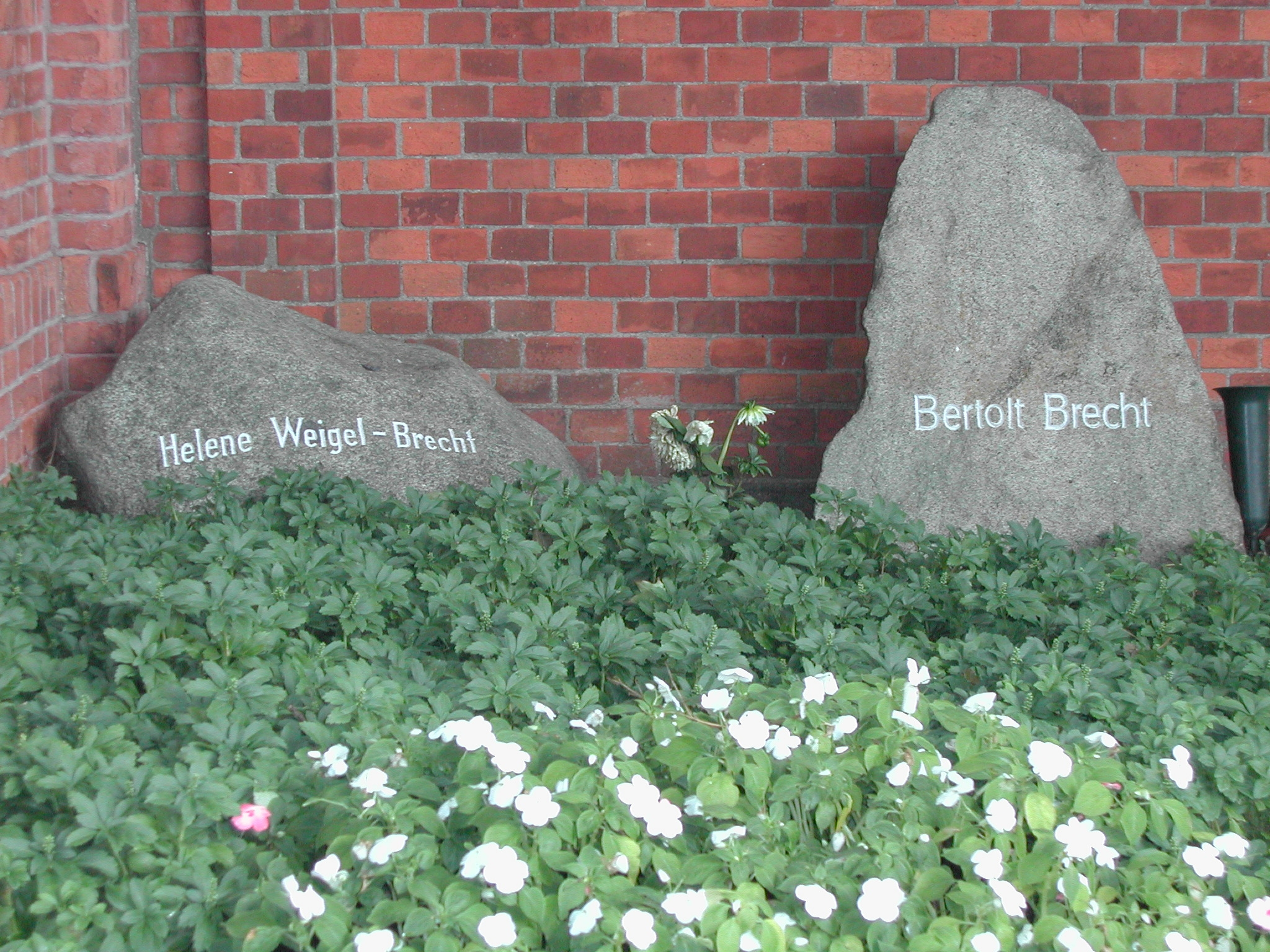 Tomba di Bertolt Brecht al Dorotheenstädtischer Friedhof